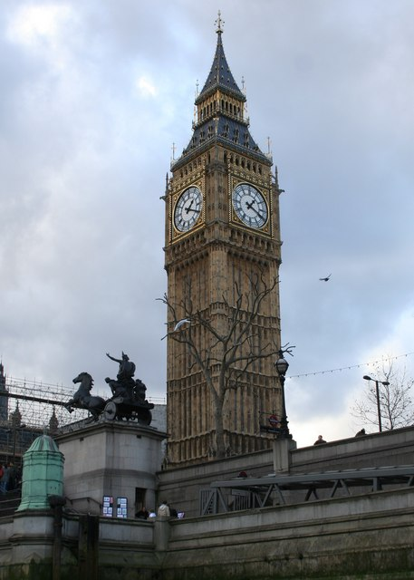 Big Ben from the Thames with the figure of Boudicca riding into battle on the left, presumably against the hordes of scaffolders working on Westminster.